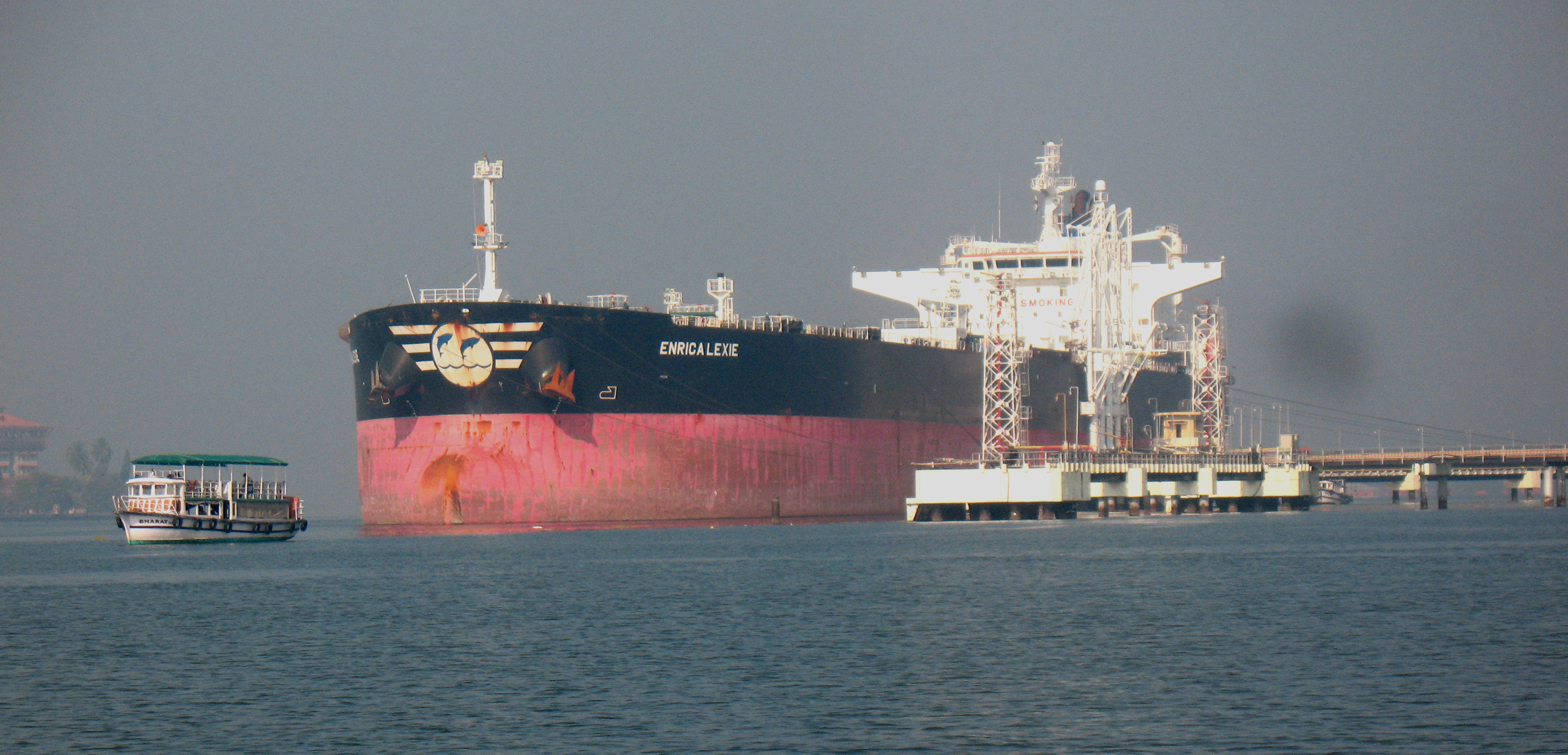 Italian Merchant vessel Enrica Lexie, residing in Cochin Port under Kerala Police custody, after Arabian Sea shooting.